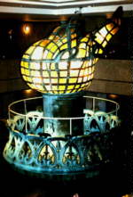 Statue of Liberty's original torch.